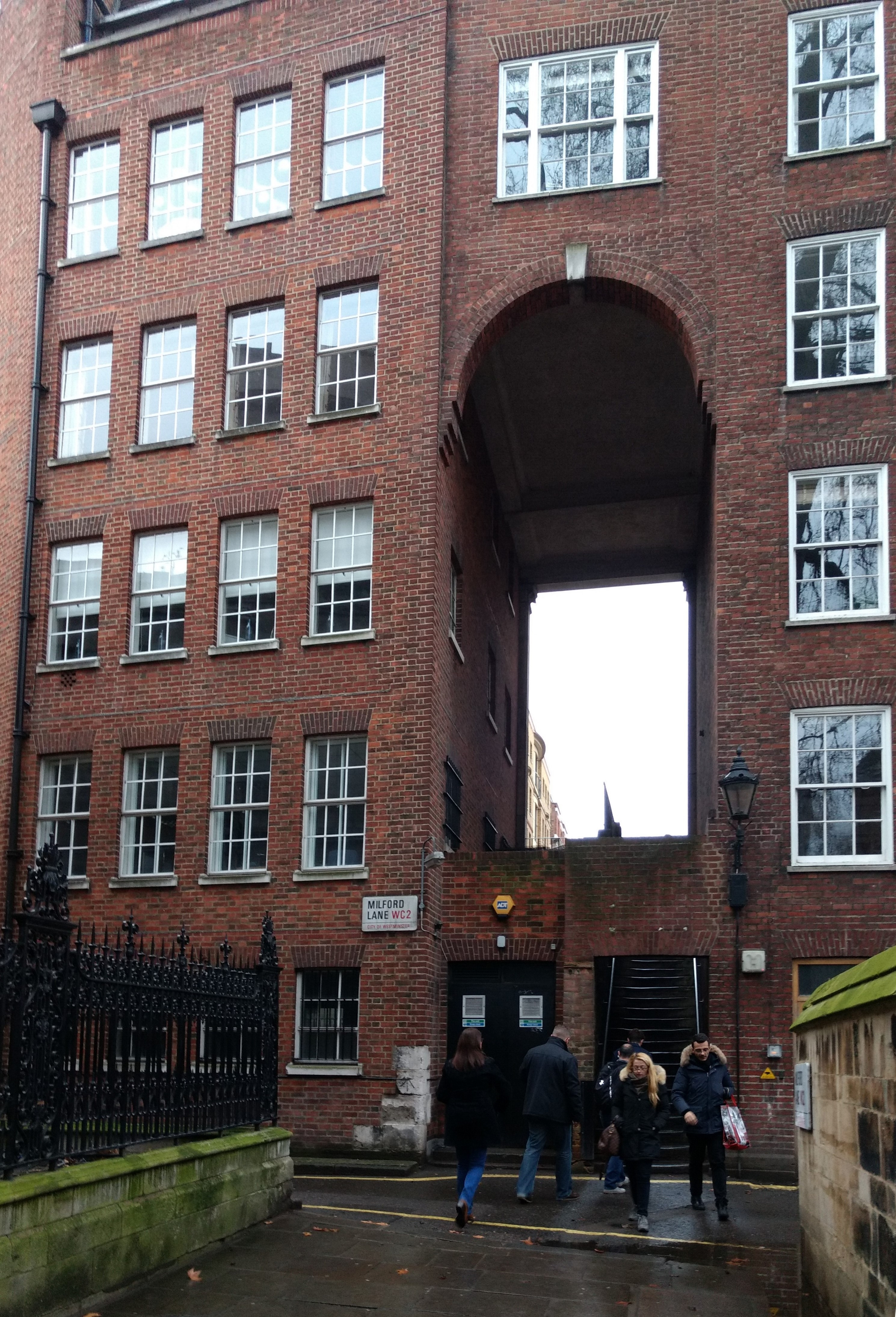 MIlford Lane 7 Jan 2017